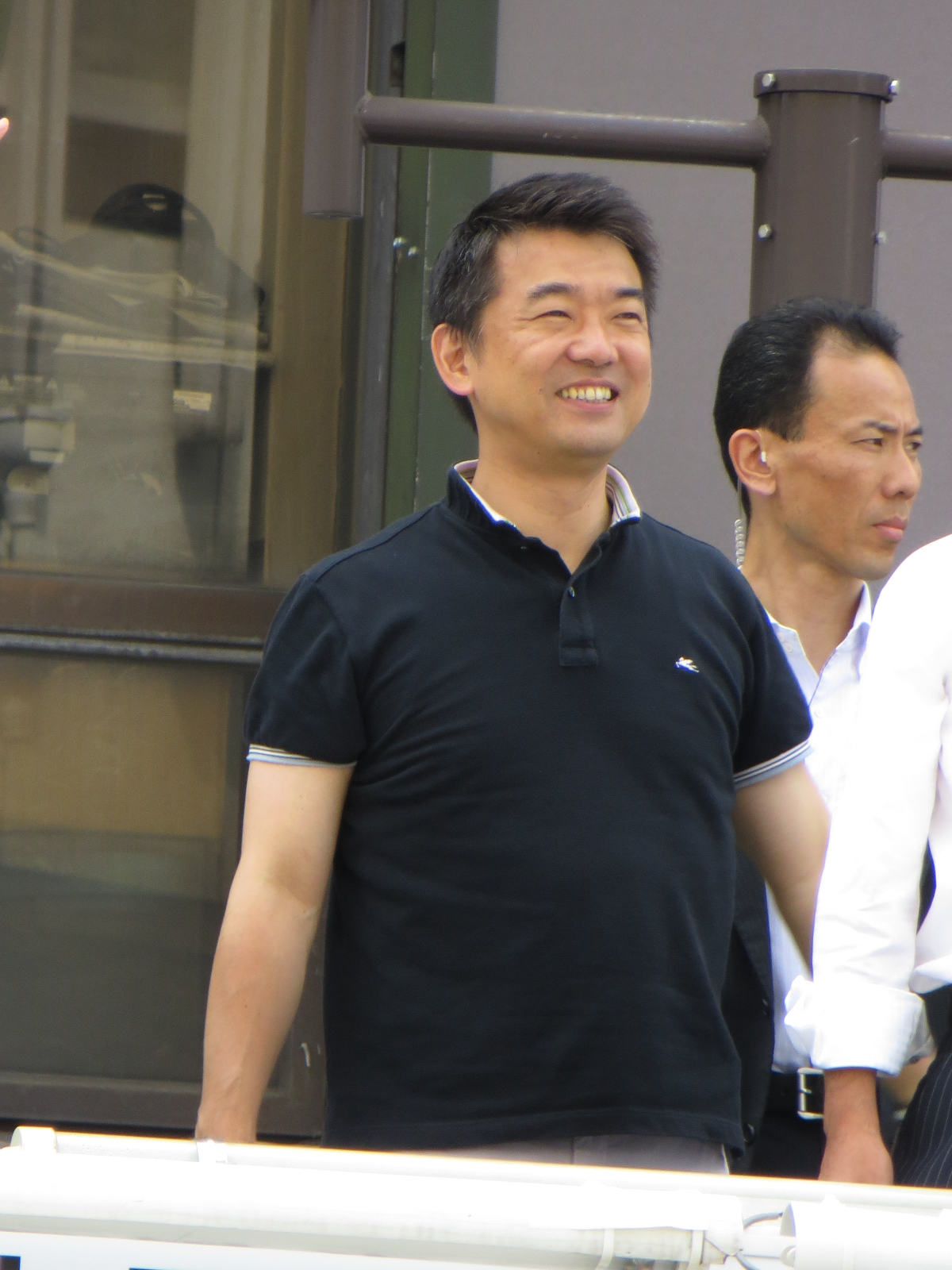 Tōru Hashimoto (Mayor of Osaka city and co-leader of Japan Restoration Party.).